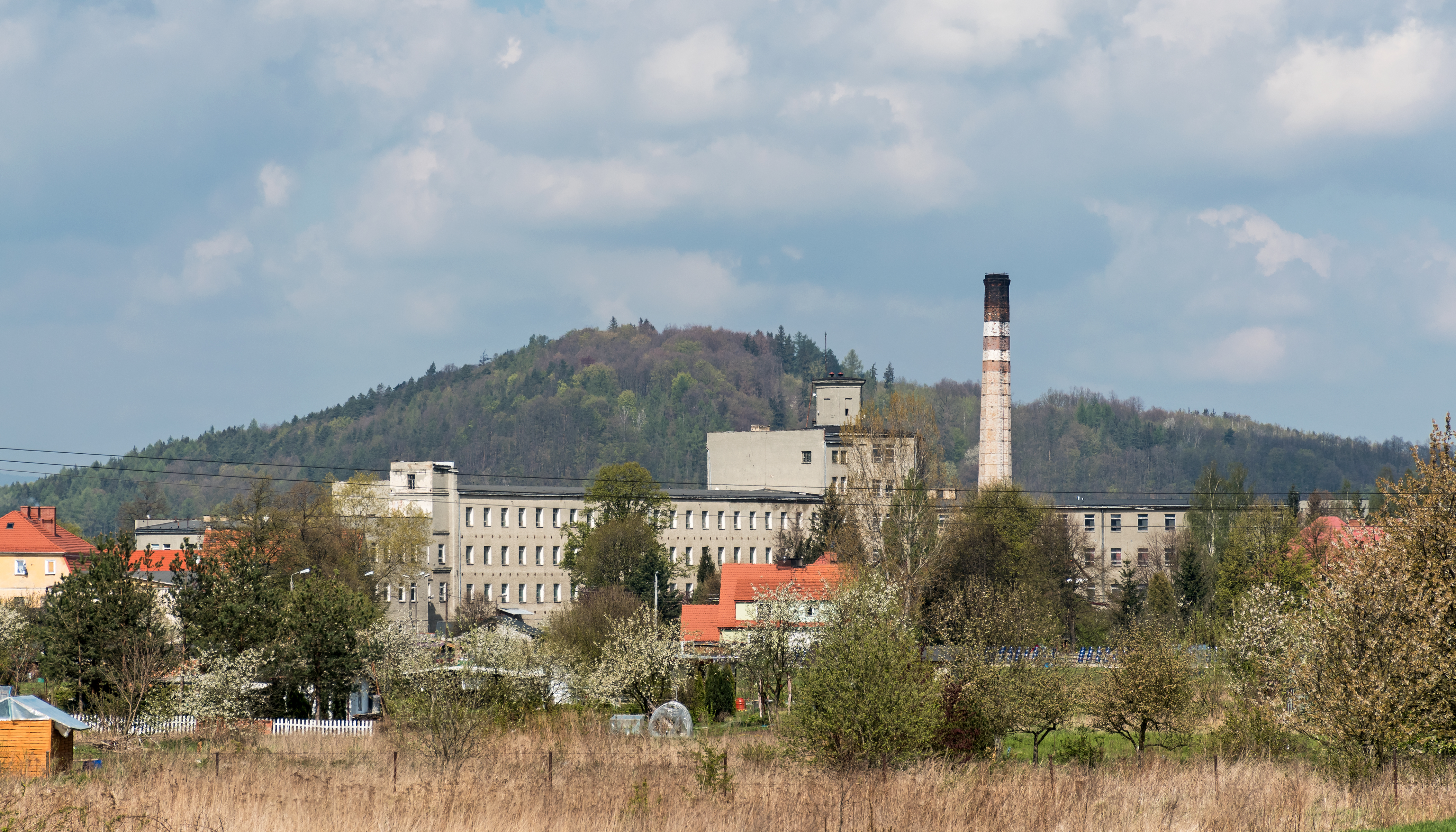 Krosnowice, former Bobo Cotton Industries